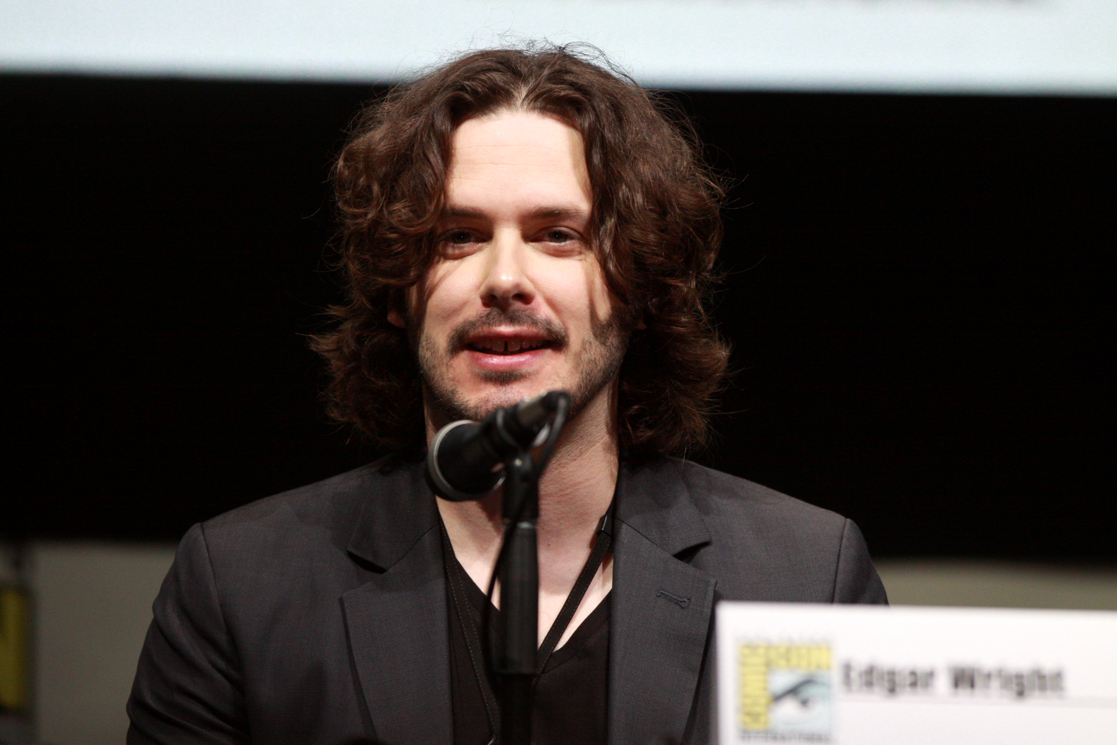 Edgar Wright speaking at the 2013 San Diego Comic Con International, for "The World's End", at the San Diego Convention Center in San Diego, California.